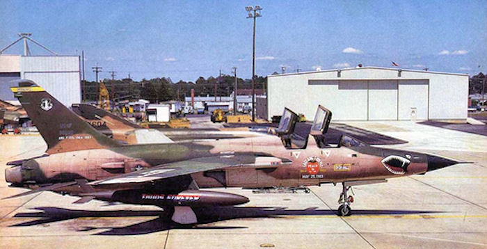 A Republic F-105F Thunderchief (s/n 63-8299) from the 128th Tactical Fighter Squadron, Georgia Air National Guard, on the ramp at Dobbins Air Force Base, Georgia (USA), on 25 May 1983. The F-105F was heading to the boneyard, the last F-105 in USAF service. Next to it is McDonnell F-4D-26-MC Phantom II (s/n 65-0604), arriving for service with the 128th TFS.